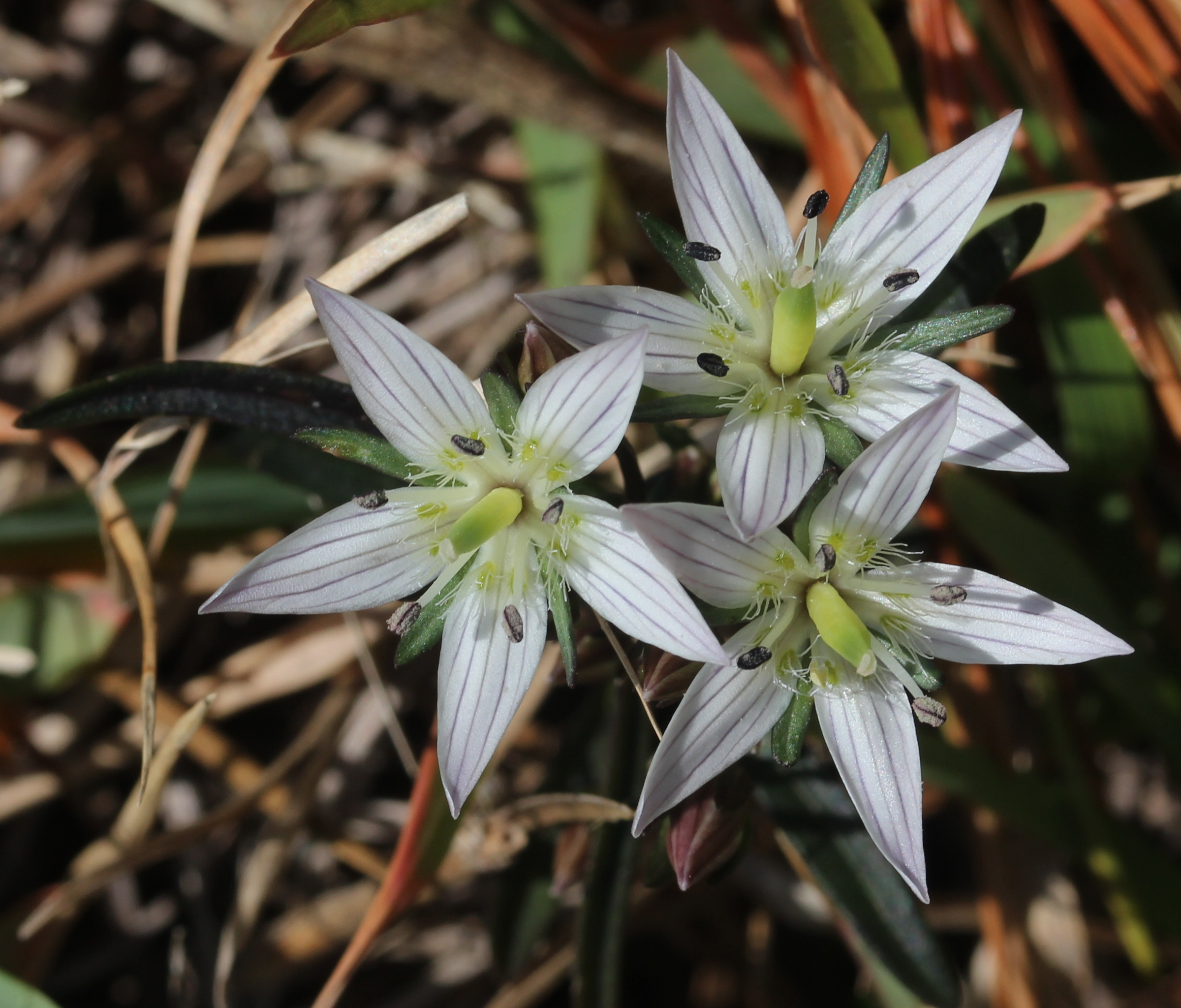 Swertia japonica (Schult.) Makino, detail of flower in Mount Ibuki, Shiga prefecture, Japan.